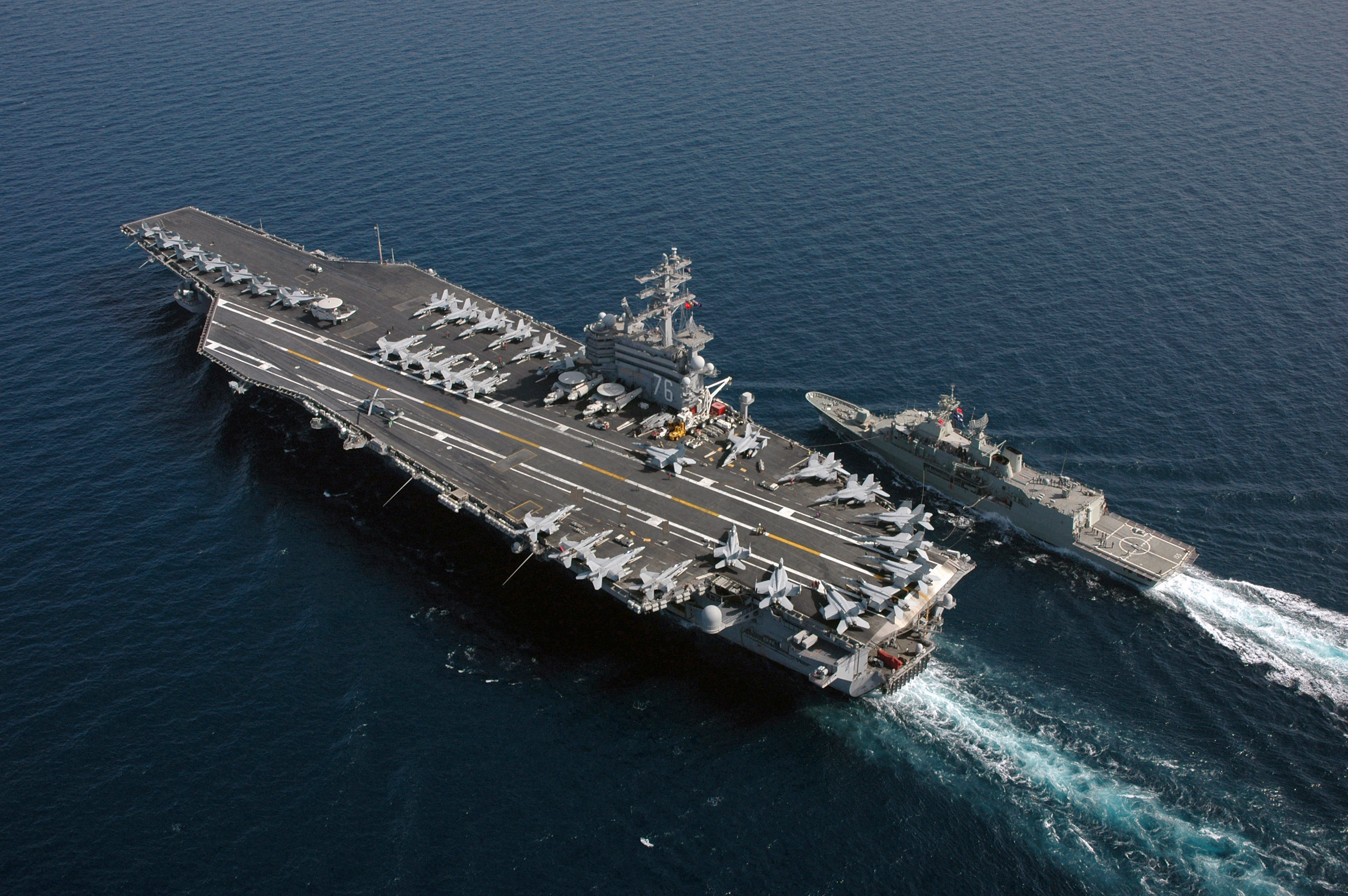 Sourced from: Details: ID: DNSD0701945 Service Depicted: Navy 060421N7130B171 The US Navy (USN) Nimitz Class Aircraft Carrier USS RONALD REAGAN (CVN 76) makes final preparations to provide fuel to the Royal Australian Navy Frigate HMAS BALLARAT (FFH 155) during a Fueling At Sea (FAS) evolution. The BALLARAT comes along the starboard side. The REAGAN is currently deployed in support of Operations IRAQI FREEDOM and ENDURING FREEDOM, as well as conducting Maritime Security Operations (MSO) in the region. Camera Operator: PH3 AARON BURDEN, USN Date Shot: 21 Apr 2006